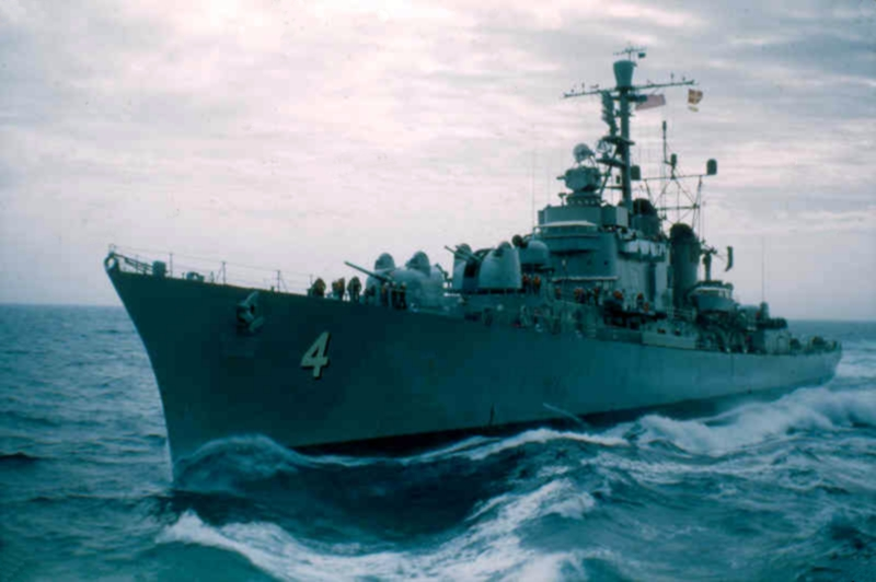 The U.S. Navy Mitscher-class destroyer USS Willis A. Lee (DL-4) steaming next to the aircraft carrier USS Franklin D. Roosevelt (CVA-42) in the Mediterranean Sea, in 1959.